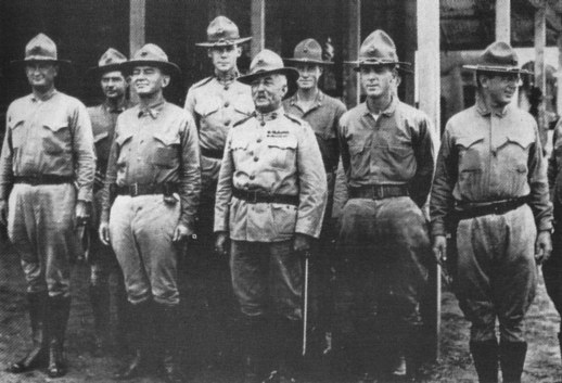 Four legendary Marine Officers photographed at Vera Cruz, Mexico in 1914. Front row, left to right: Wendell C. Neville; John A. Lejeune; Littleton W. T. Waller, Commanding; Smedley Butler.